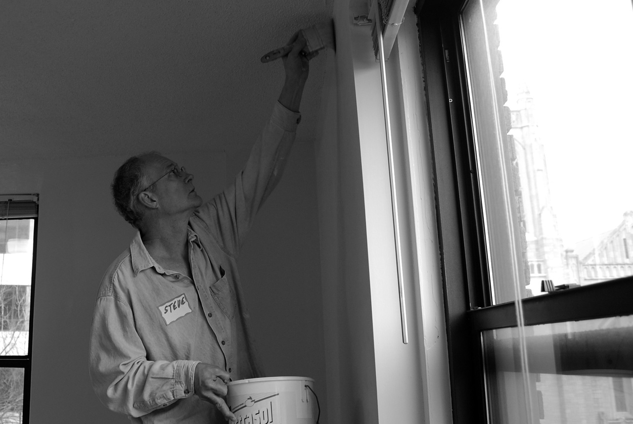 Black and white photo of man painting a room in housing initiative for the homeless